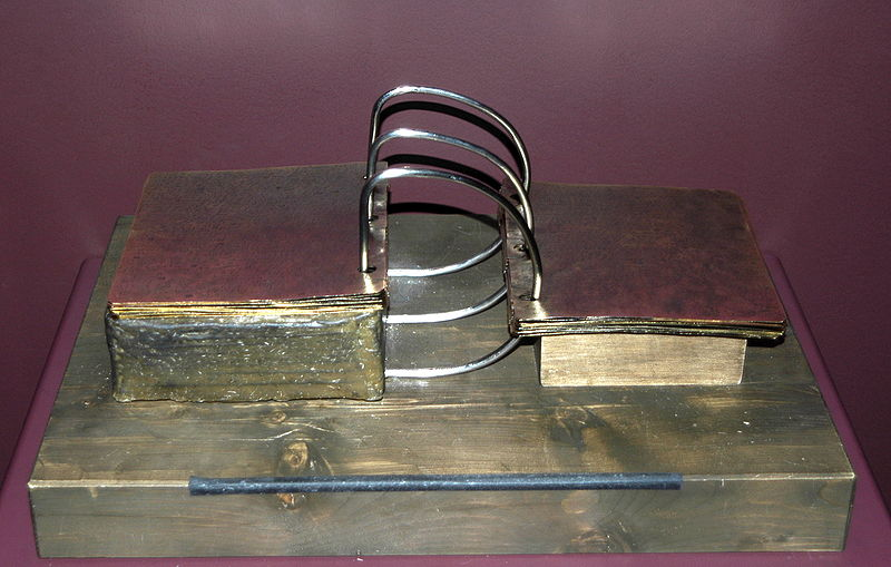 A rough replica of the golden plates on display in the Church History Museum of The Church of Jesus Christ of Latter-day Saints in Salt Lake City. The original gold plates were reported by Joseph Smith, Jr. to be the source of the text found in the Book of Mormon.